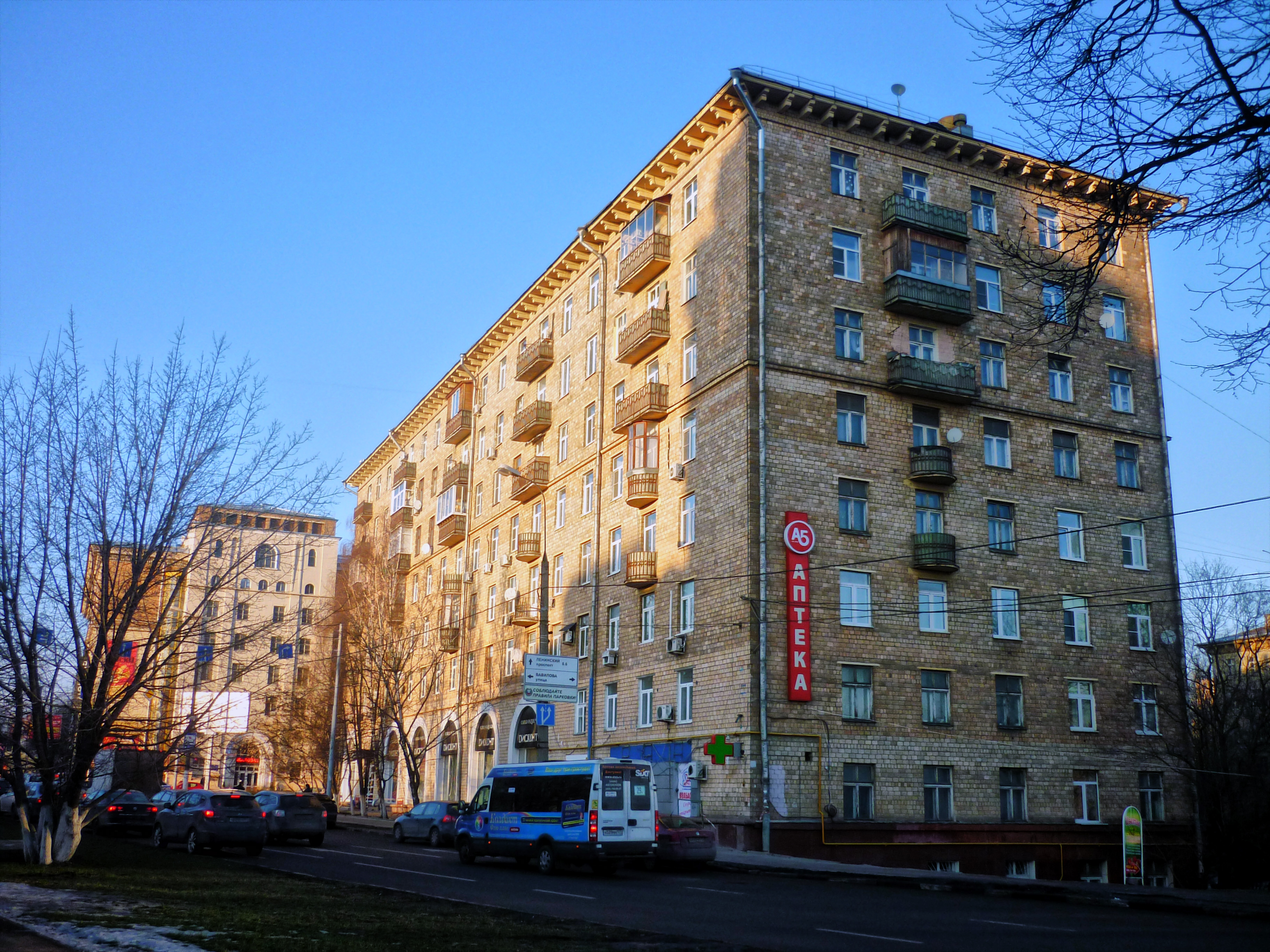 Vavilova 55/7 - a typical example of the Russian elite housing built in the 1950s under Stalin's project. This house was built for the members of the Russian Science Academy.